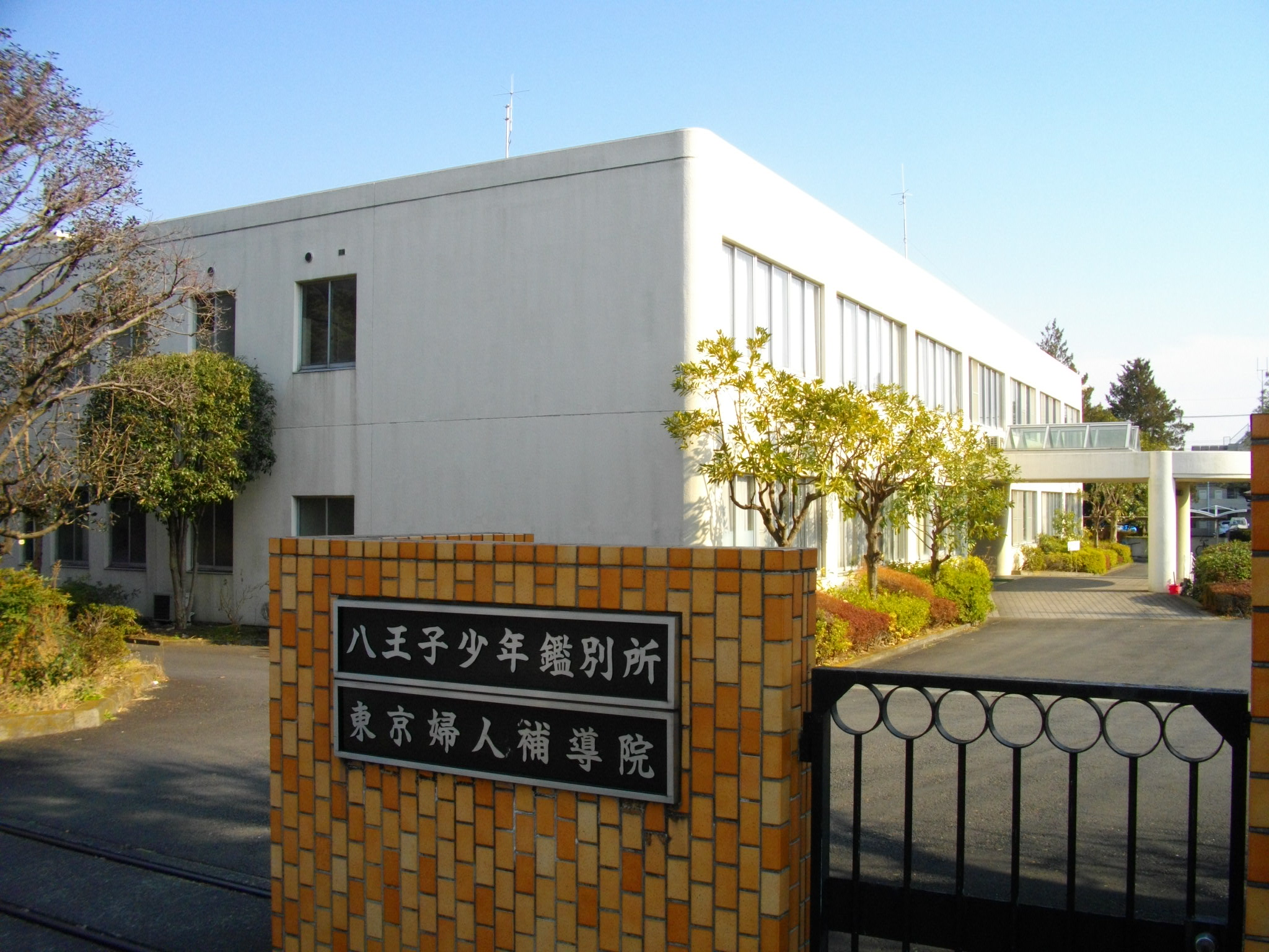 Hachioji Juvenile Detention Center and Tokyo Women's Guidance Home